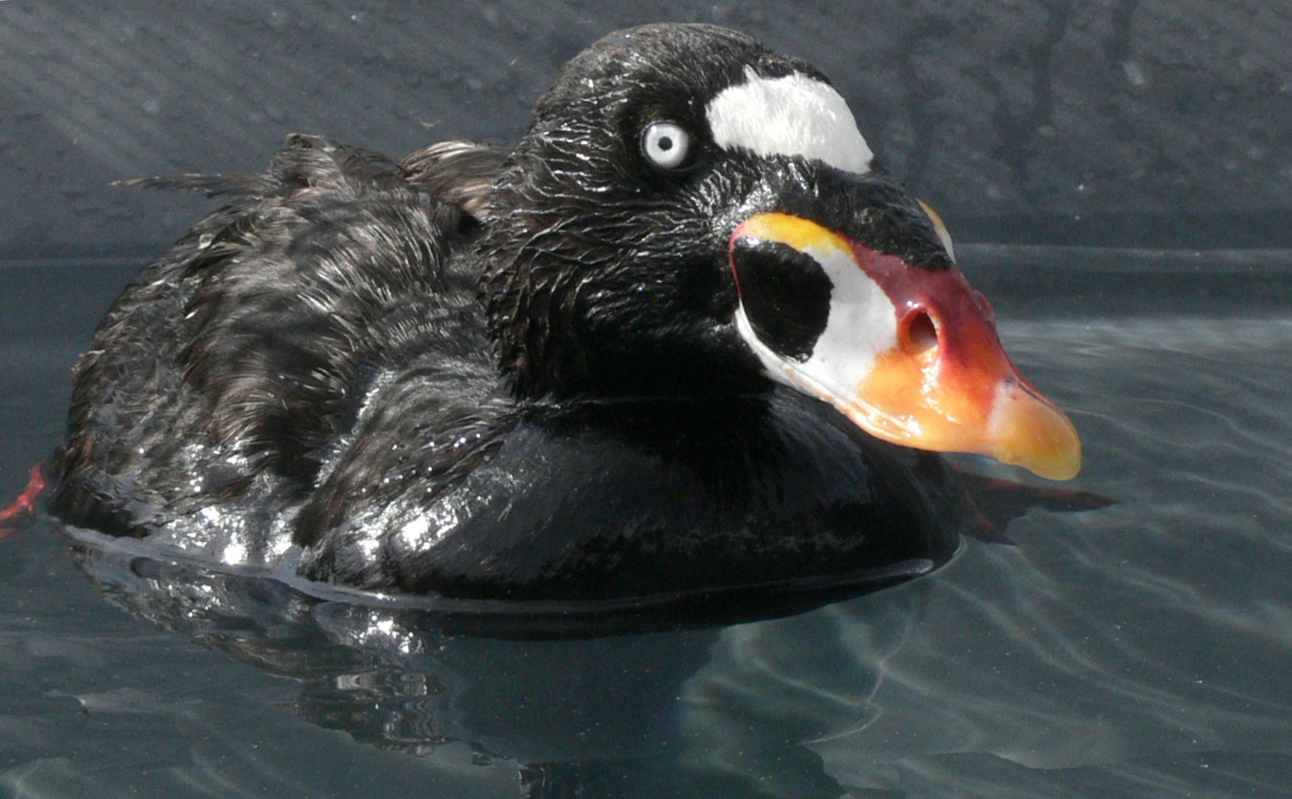 Surf Scoter (Melanitta perspicillata), male